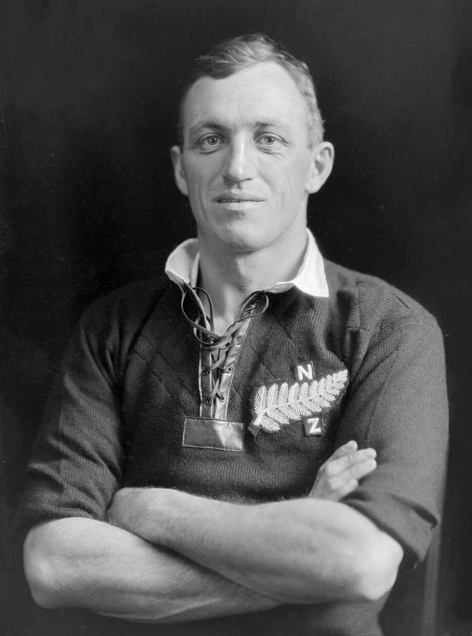 James Hislop Parker, All Black rugby player 1924